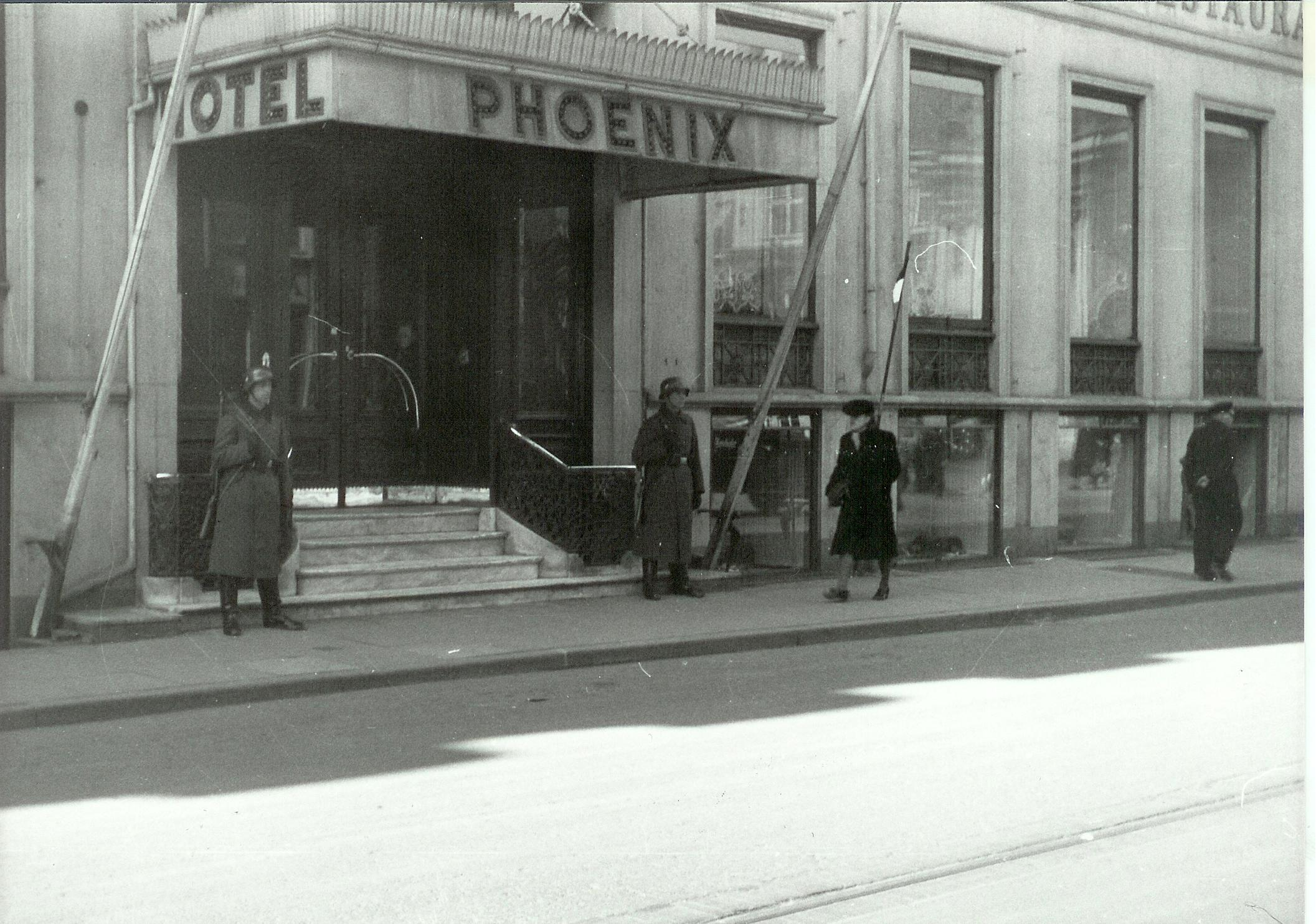 More images from The Museum of Danish Resistance